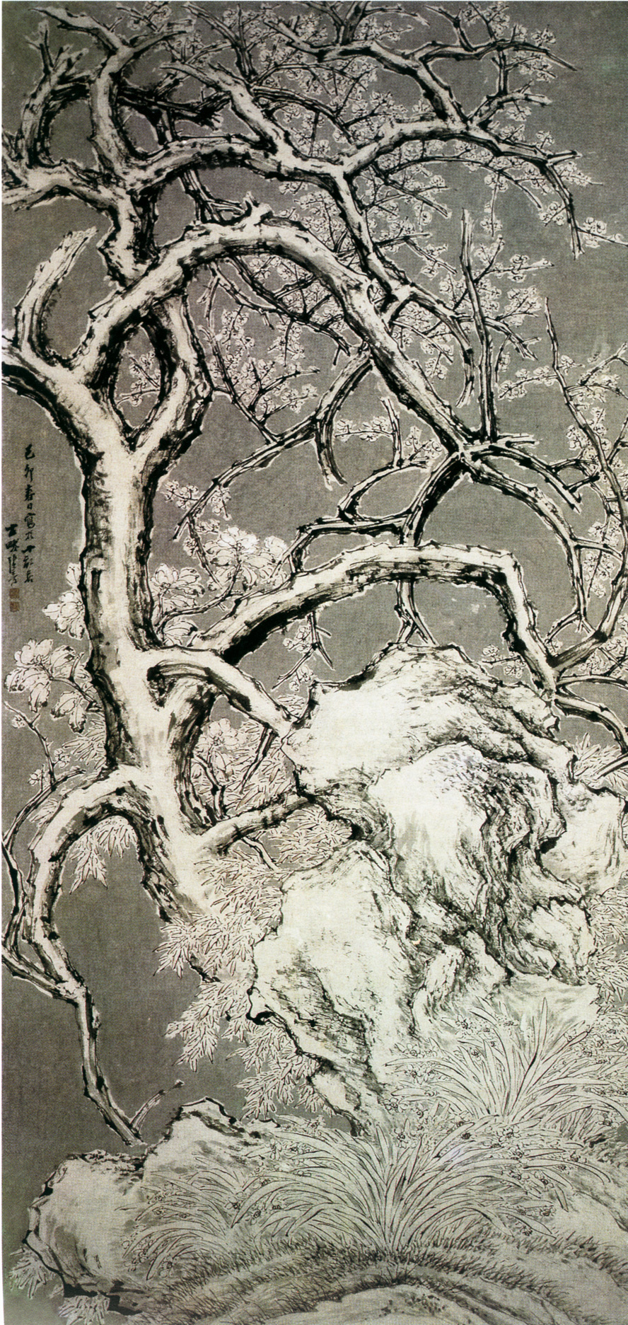 Plum Blossoms in Snow, Zhang Yan, Ming Dynasty, China, Suzhou Museum